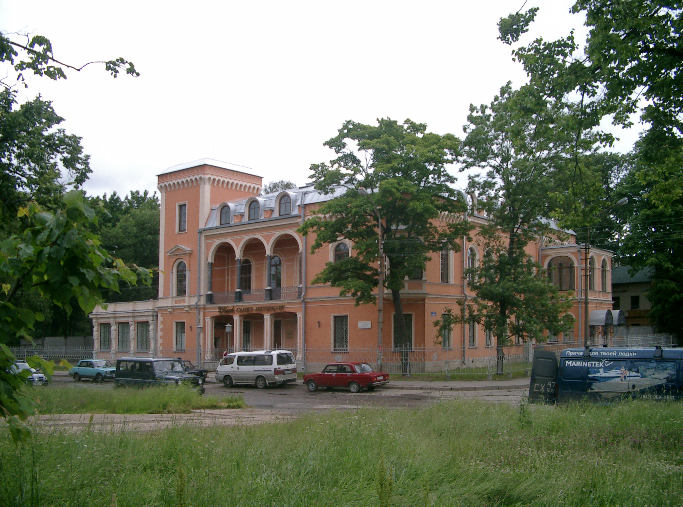 Geyrot Mansion, Nikolskaya (Mezhdunarodnaya, Alexandrinskaya) street 11, Peterhof